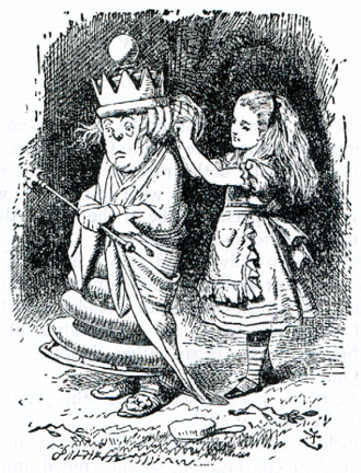 Illustration for the fifth chapter of Lewis Carroll's Through the Looking Glass (1865) by John Tenniel